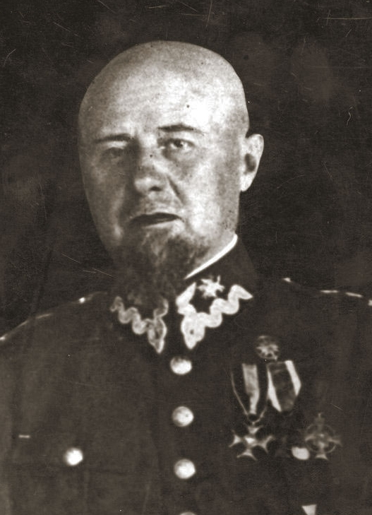 Aleksander Prystor - Polish prime minister